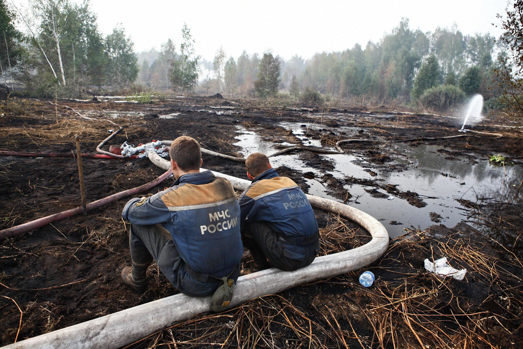 “Flooding peat bogs in Shatura District, Moscow Region”. EMERCOM employees flooding peat bogs in Shaturtorf settlement of the Shatura District.